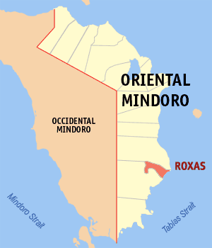 Map of Oriental Mindoro showing the location of Roxas